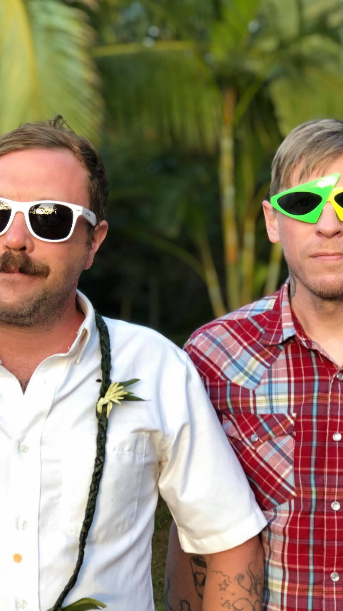 Photo taken by Molly Duncan on-site in Maui at their practice space during rehearsals for the upcoming tour supporting their newest album YYYMF. Mythological Horses is an alternative rock band from Seattle WA. Subjects: Shawn Holley, Jest Commons Photo Credit: Molly Duncan Taken March 26, 2019 in Maui Hawaii